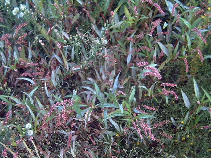 A work release by Javier martin, a plant Persicaria maculosa (syn. Polygonum persicaria), in Pantano del Montoro, Puertollano, Ciudad Real, Spain 2006 July 23. A free donation to Wikipedia.